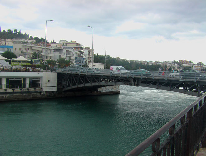 Chalkida_view_from_main_squere. Credit: Courtesy of Arie Darzi to memorialize the Jewish community in Greece.